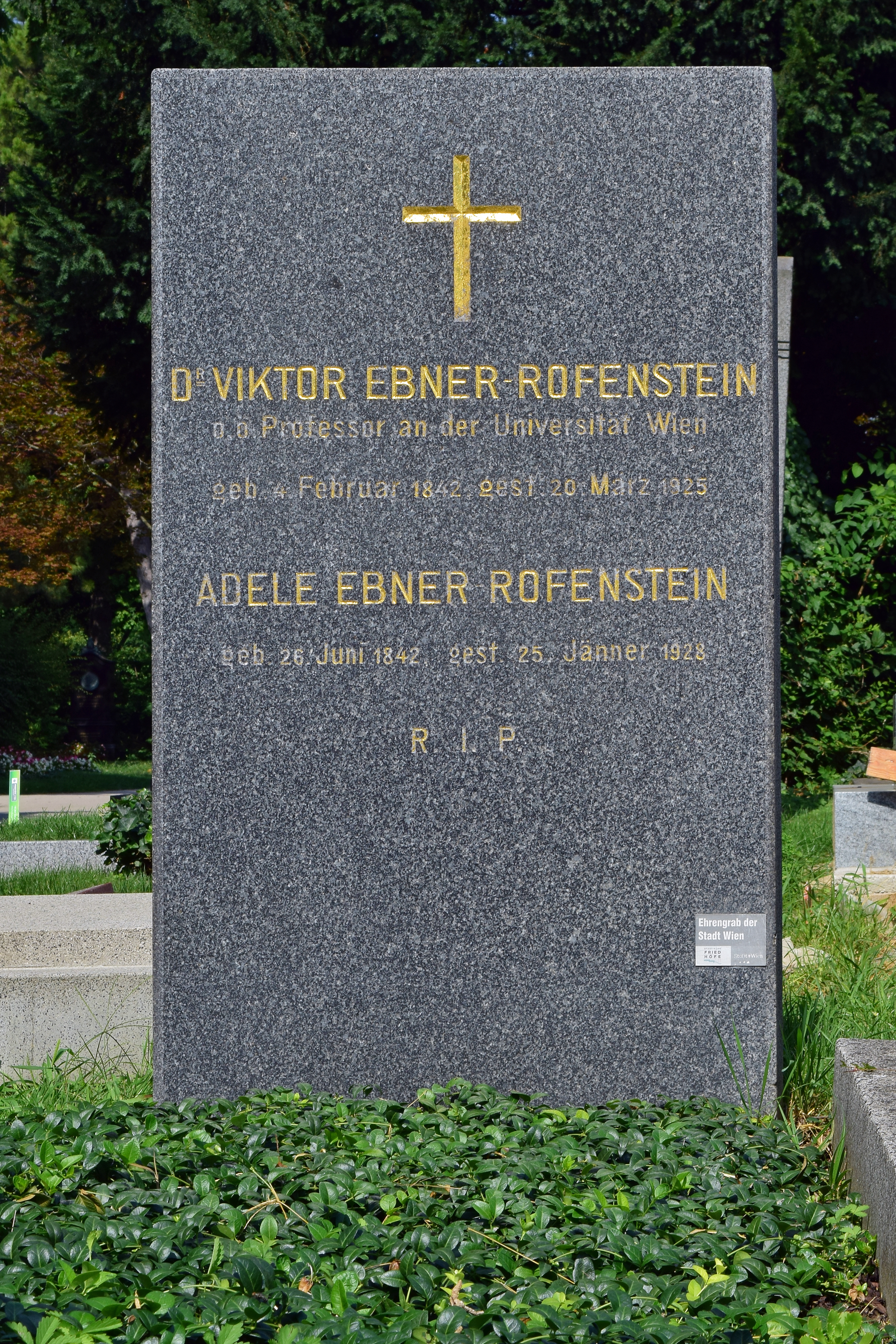 Grave of honor of Victor von Ebner at the Wiener Zentralfriedhof